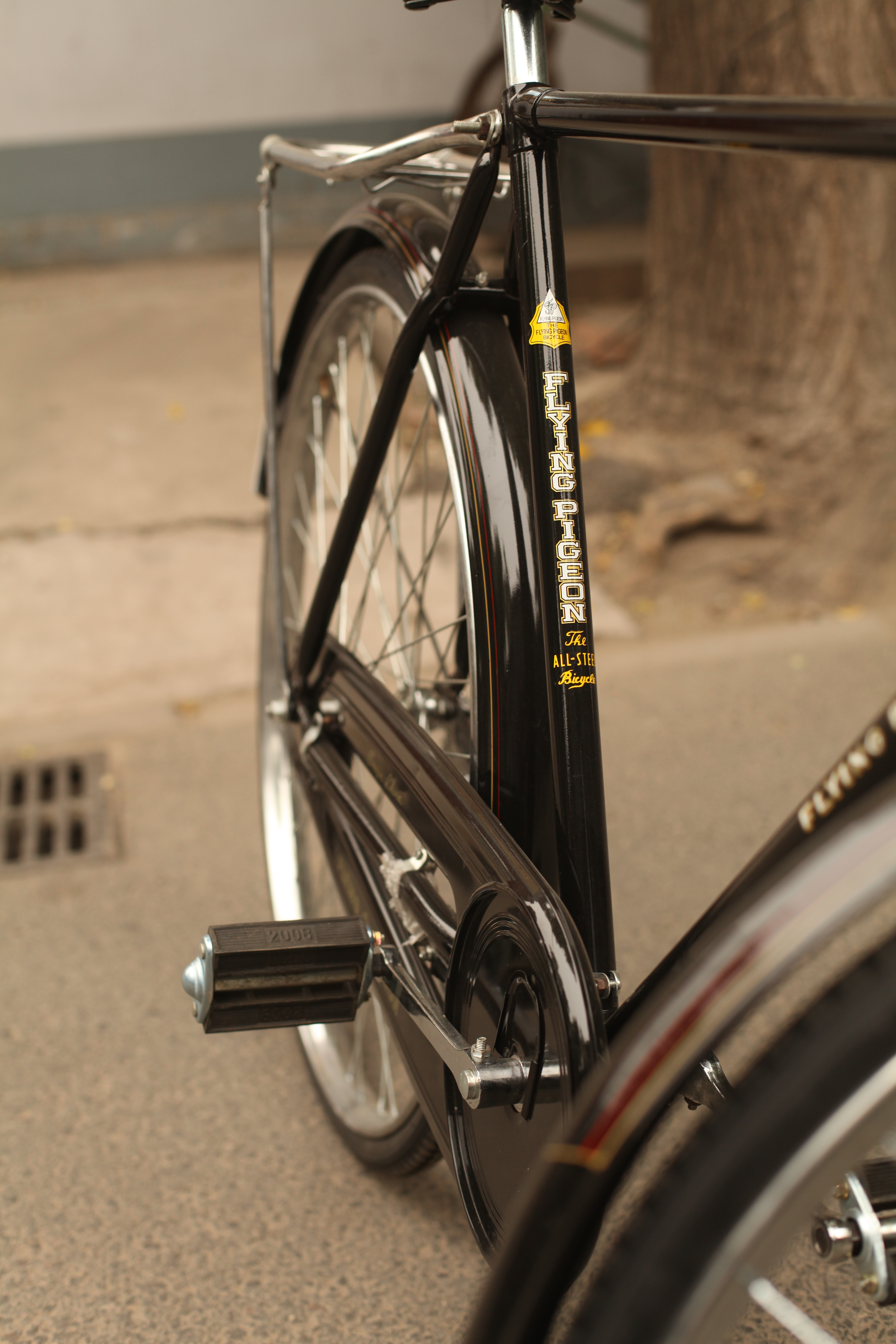 website 回 twitter 回 facebook